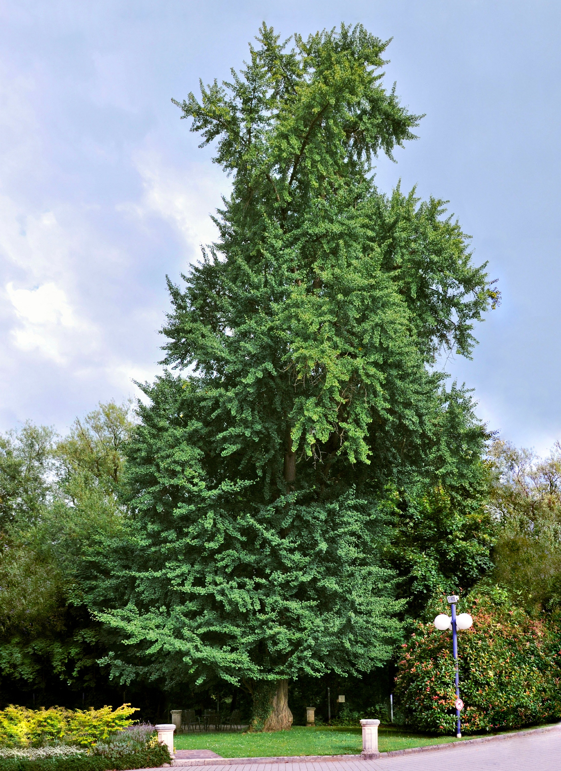 Luxembourg City: remarkable Gingko at place Dargent.